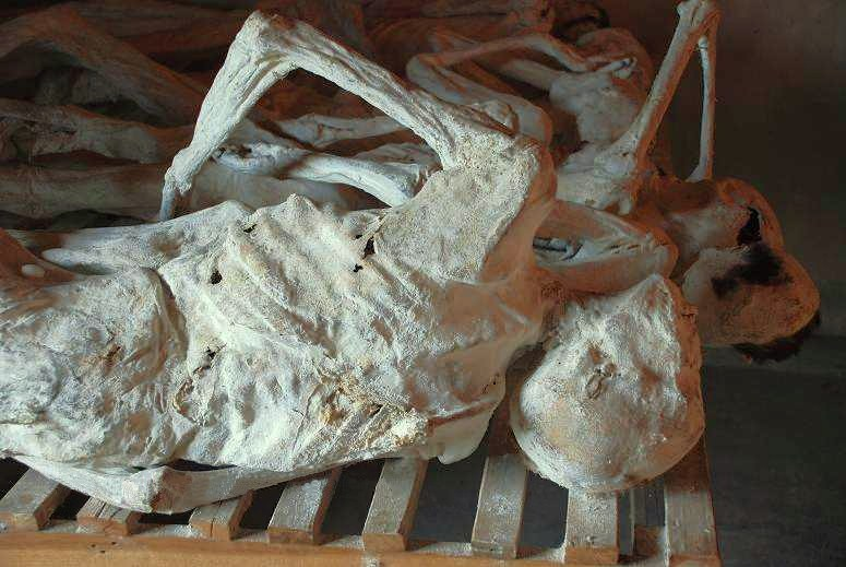 Mass Grave Memorial in Southern Rwanda, near Bukavu, returns the Genocide of 1994 to mind.